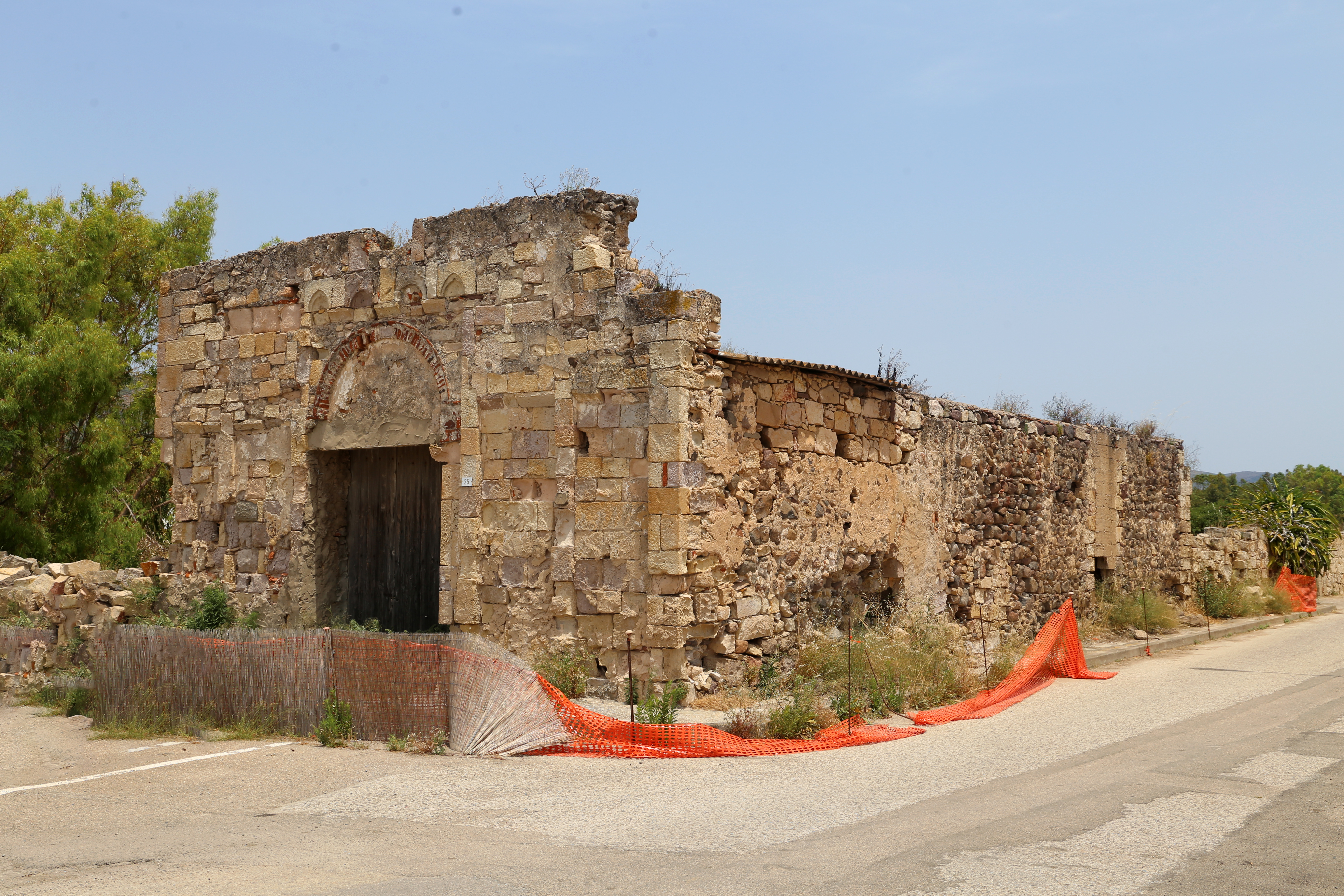 San Giovanni Suergiu